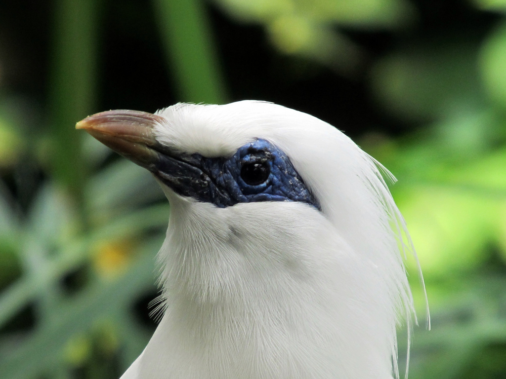 A Bali Starling at Topeka Zoo, Kansas, USA.